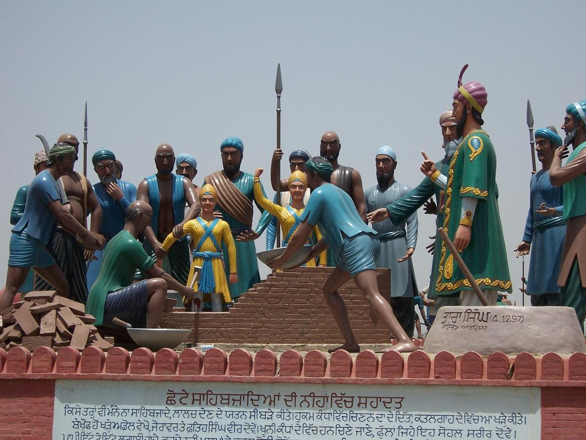 Mehdiana - Sahibzada Zorawar Singh and Sahibzada Fateh Singh being bricked alive by the Sultan of Sirhind at Fatehgarh Sahib